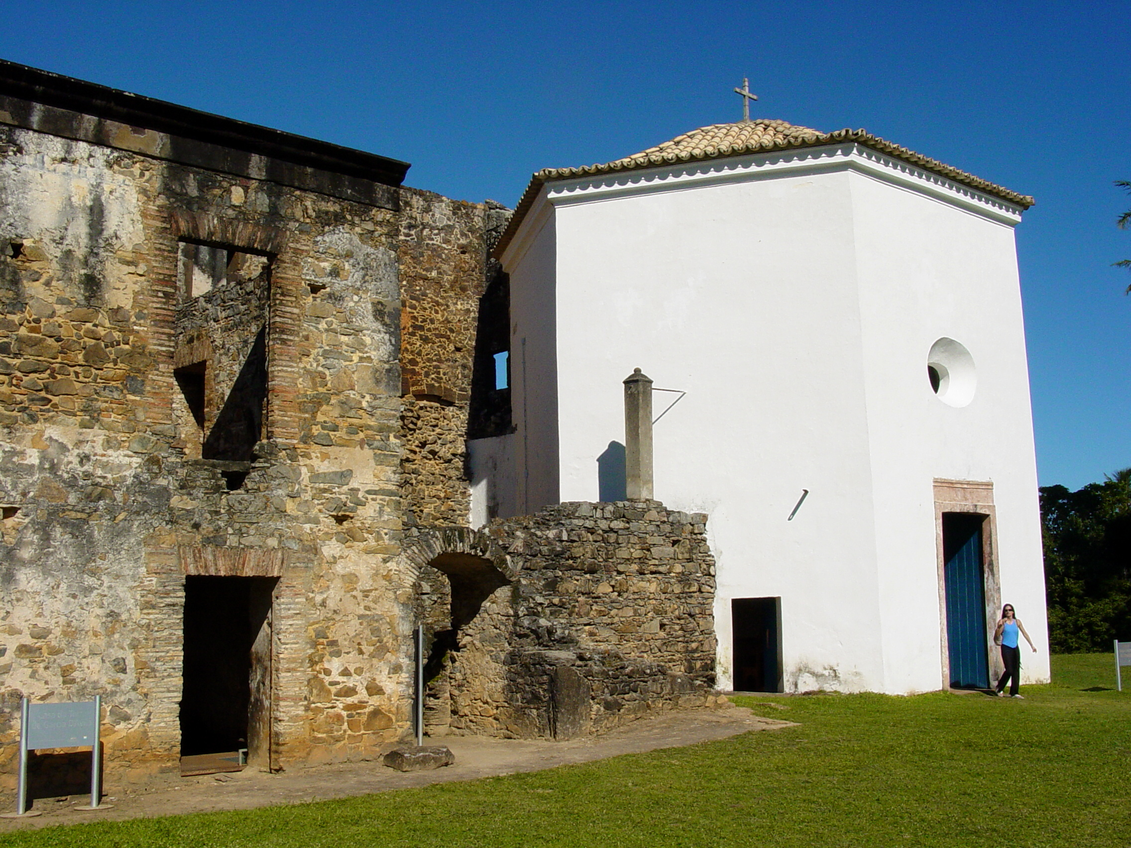 Castelo de Garcia d'Avila, near Praia do Forte, Brazil. July 2006. "For no apparent reason," according to Lonely Planet, a Portuguese farmer who owned twelve cows received a grant from the King of Portugal to some 800,000 square kilometres of Brazilian territory, making him the largest private landowner in the world. He built the Castelo, the only feudal castle in the Americas and the oldest major construction in Portuguese America.